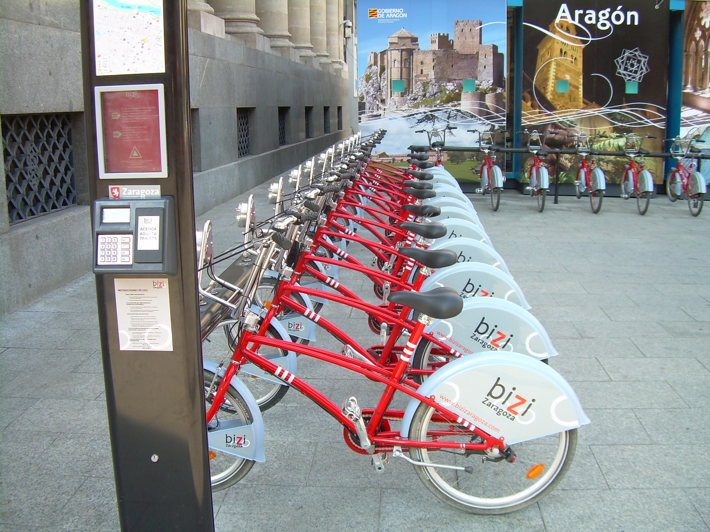 This is bike sharing in Zaragoza, Spain. This is the same program that was launched in Washington, D.C..